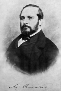 Michele Amari (July 7, 1806 – July 16, 1889) was an Italian patriot and historian. Born at Palermo, he devoted a great part of his life to the history of Sicily, and took part in its emancipation. Amari was also an Orientalist; he is famous for throwing light on the true character of the Sicilian Vespers; and served as the Kingdom of Italy's first minister of public education.